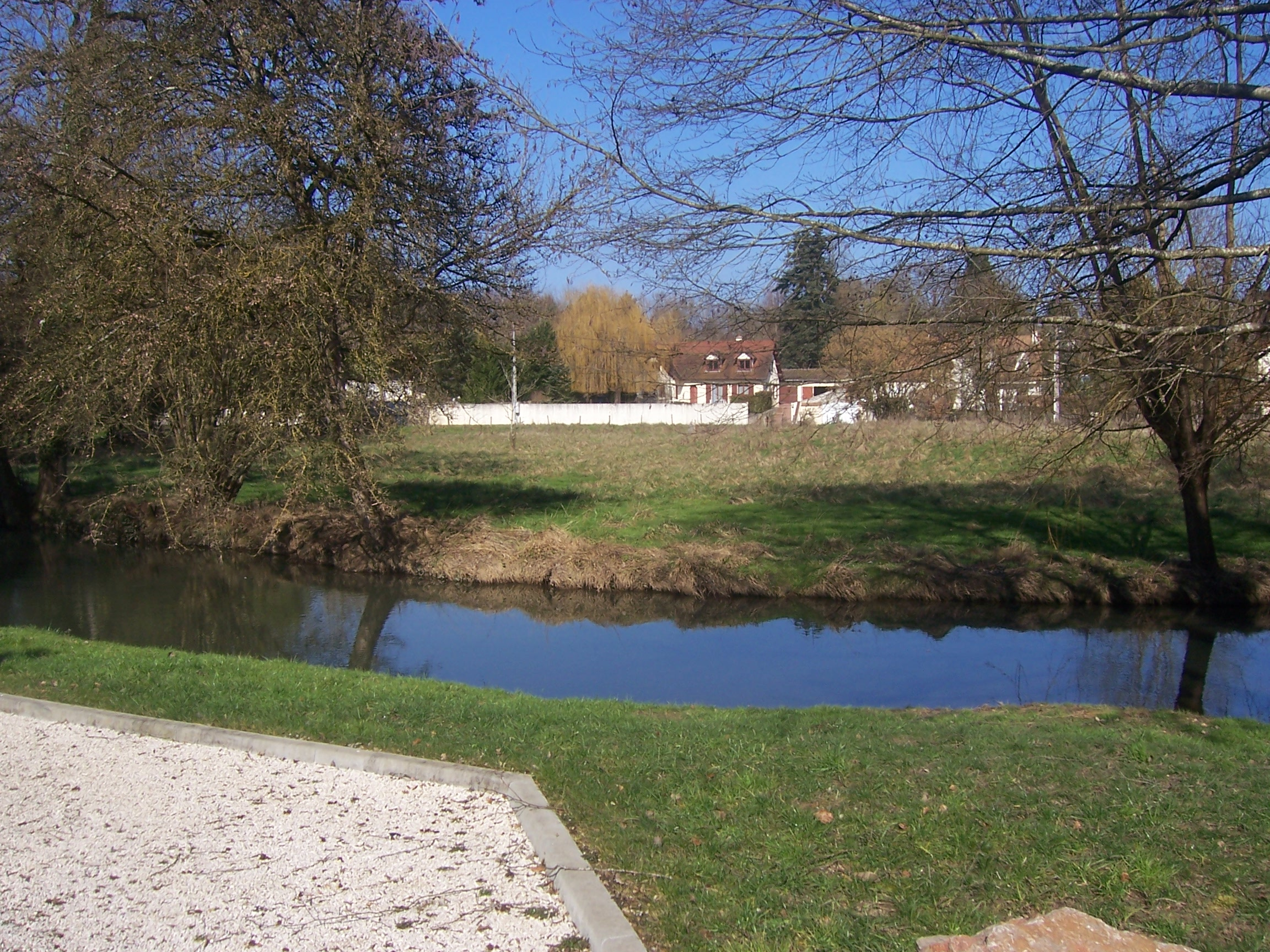 Dracy-le-Fort